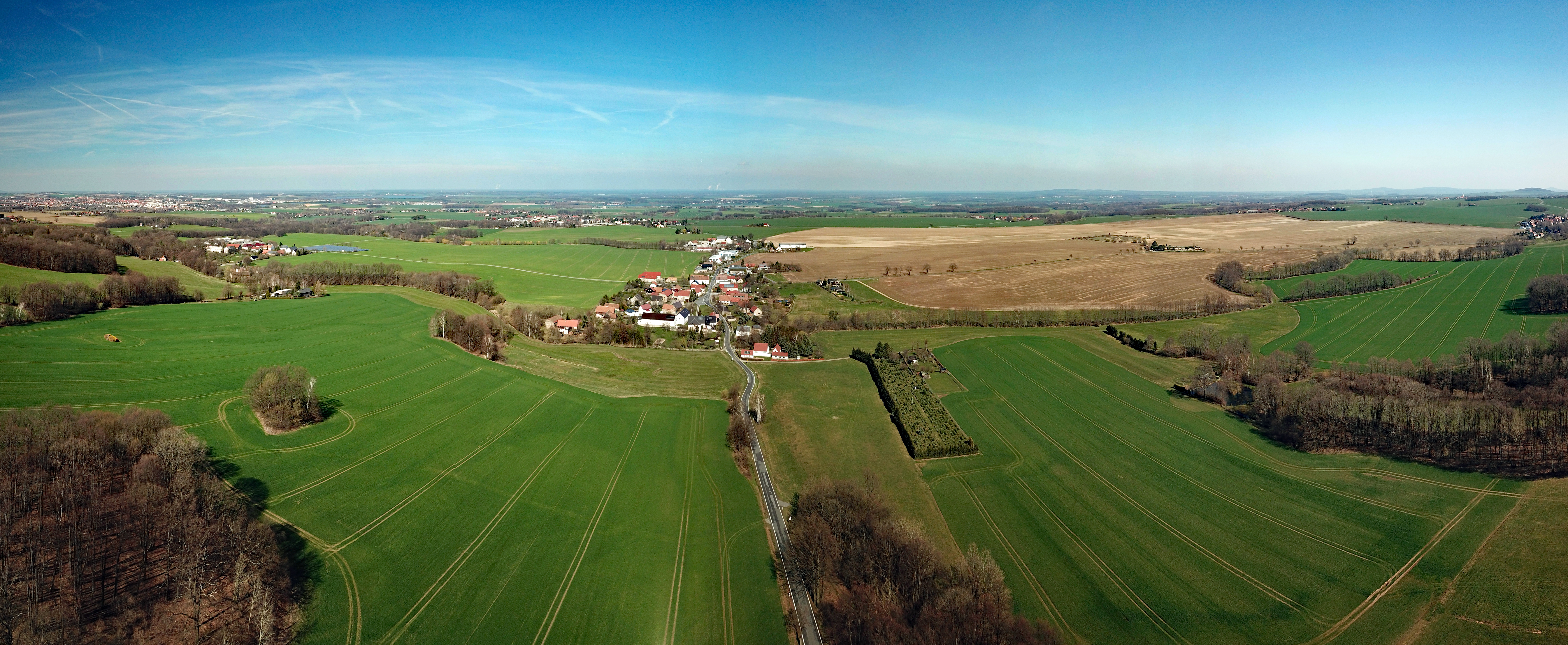 Soritz (Kubschütz, Saxony, Germany) Hornjoserbsce: Powětrowy wobraz Sowrjec Dieses Foto wurde mit einem Quadcopter innerhalb der RMZ des Flugplatzes EDAB aufgenommen. Der Flugleiter wurde am Aufnahmetag telephonisch über Ort und Zeit informiert und hat zugestimmt. Der Flug erfolgte auf Grundlage der Allgemeinverfügung der Landesdirektion Sachsen zur Erteilung der Betriebserlaubnis für unbemannte Luftfahrtsysteme und Flugmodelle gemäß § 21a LuftVO und Zulassung von Ausnahmen von Betriebsverboten gemäß § 21b LuftVO für den Freistaat Sachsen.